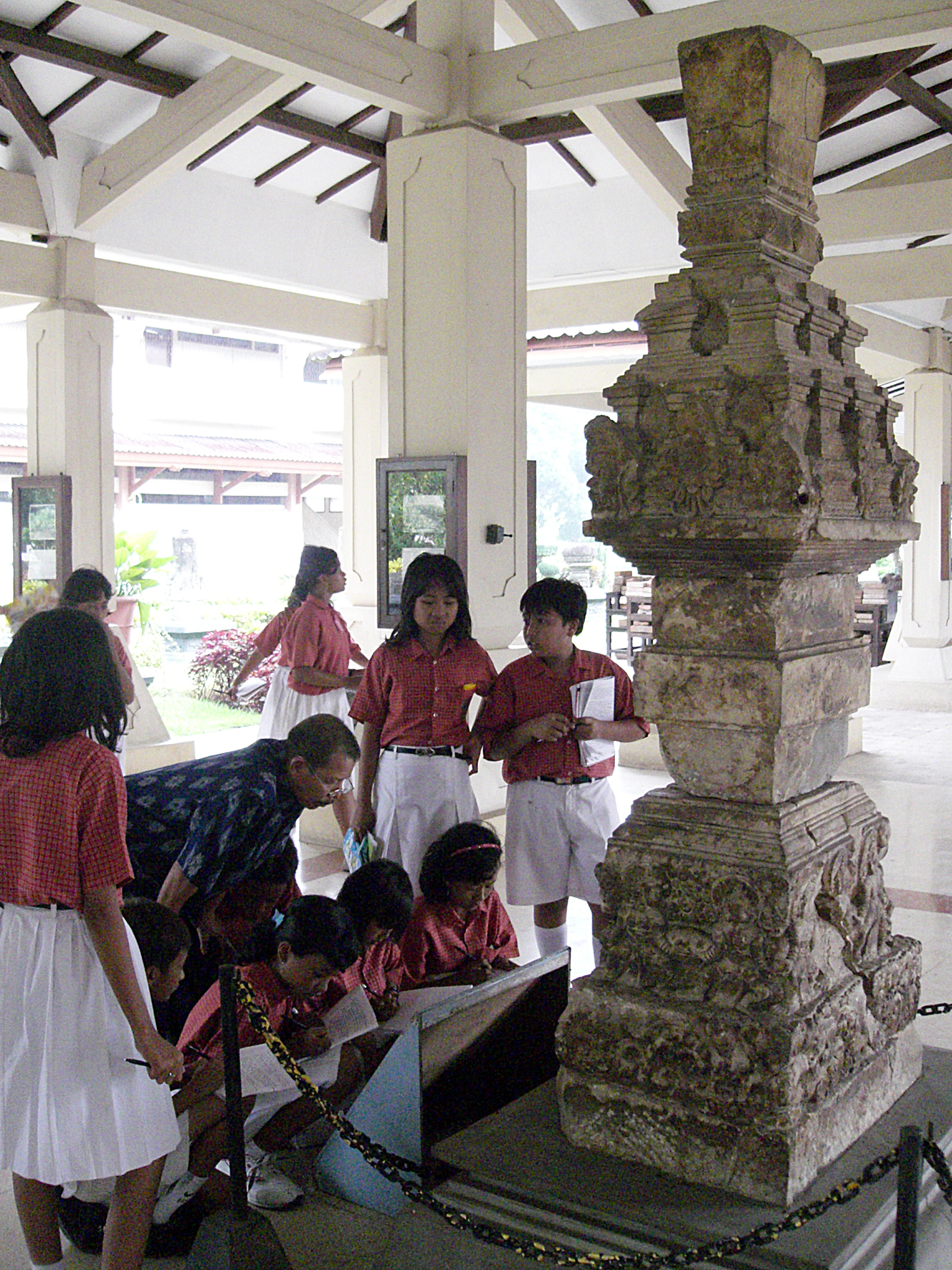 The students examine the Samodramanthana sculpture during their study tour at Trowulan Museum, East Java, Indonesia.